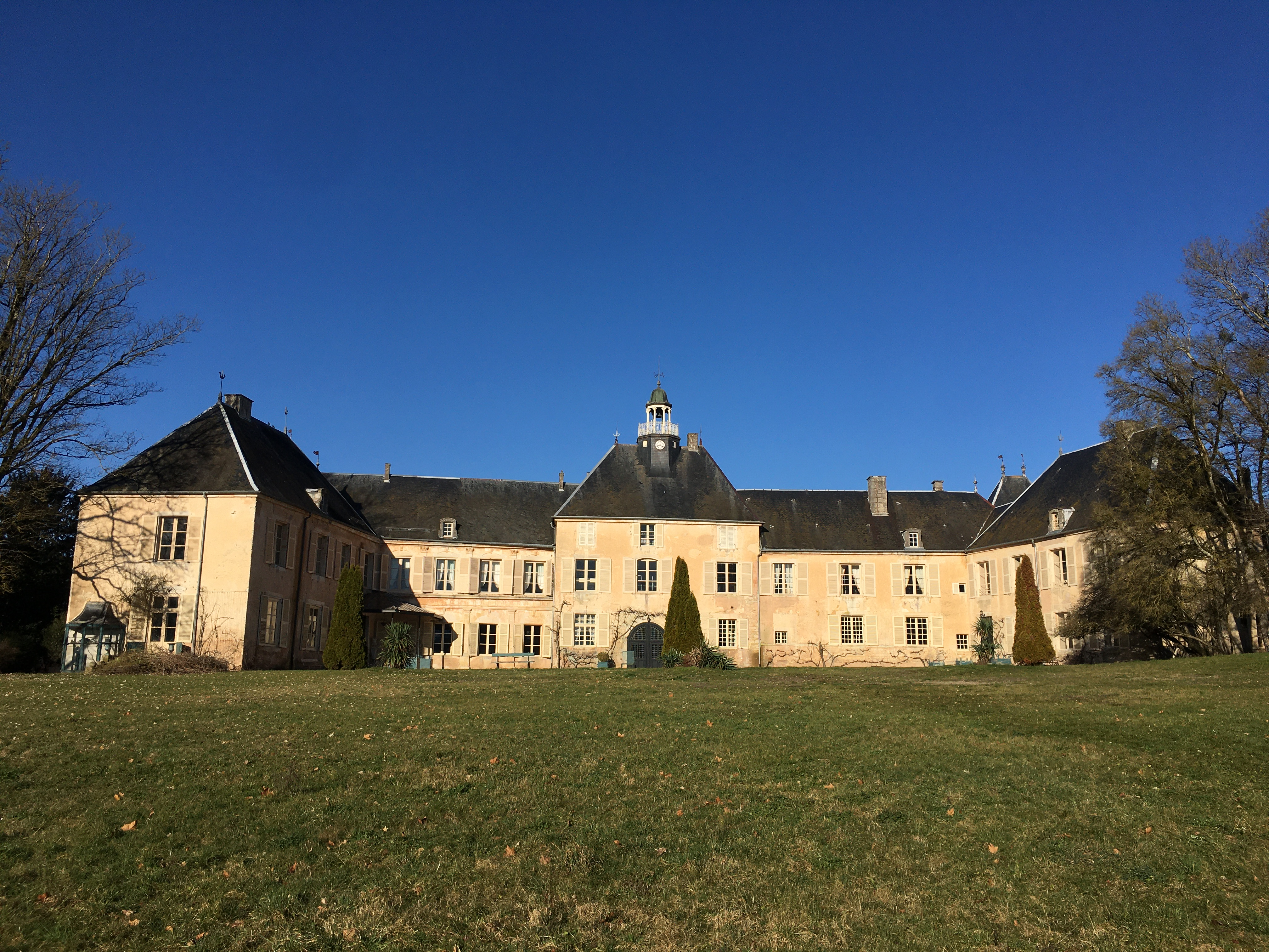 Castle of Rimaucourt